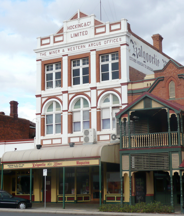 The Kalgoorlie Miner building is a three-storey brick building constructed in 1900 to provide more spacious office/factory accommodation for the expanding goldfields newspaper, the Kalgoorlie Miner. It is the only three-storey building in Hannan Street.